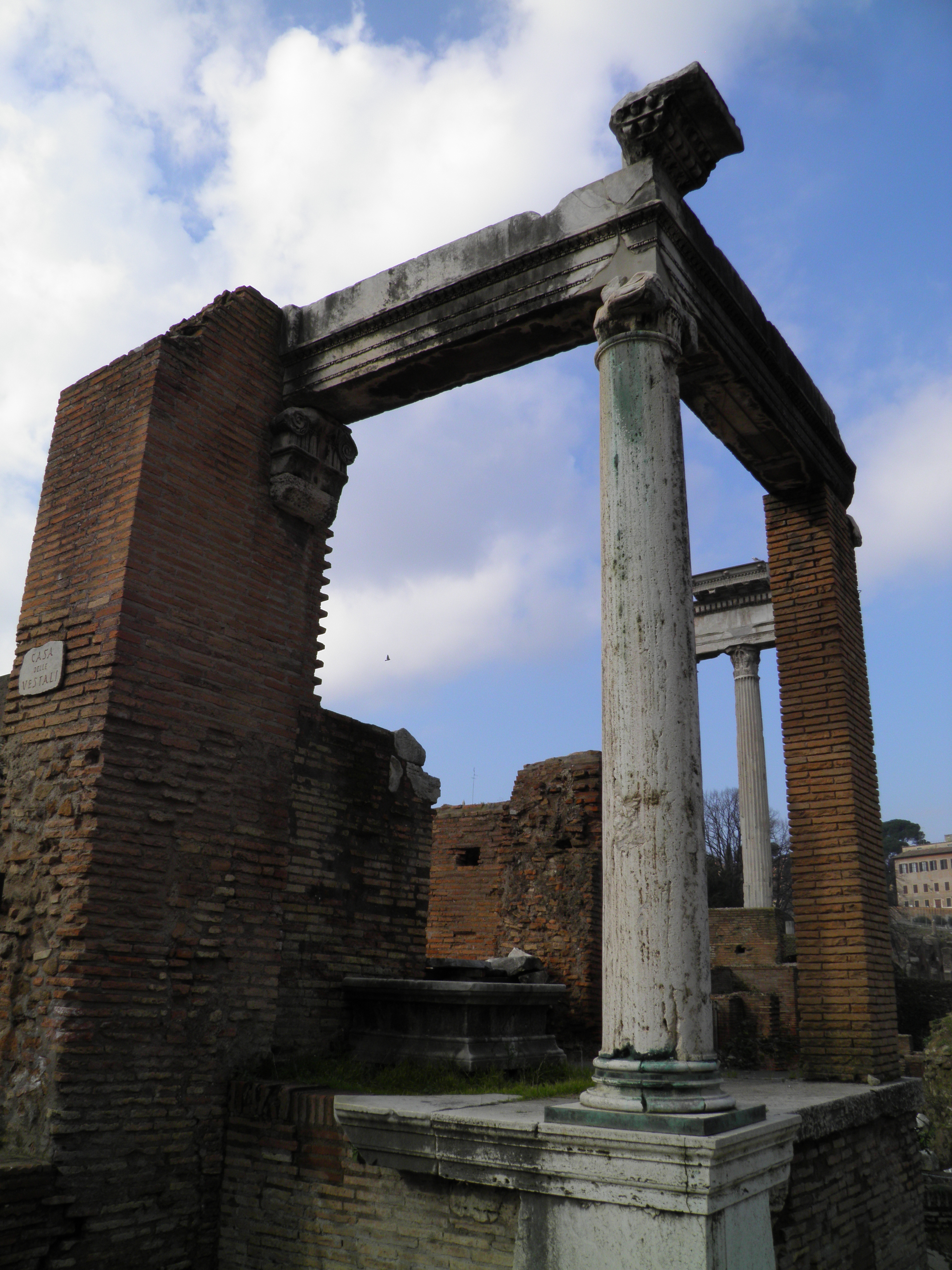 House of the Vestal Virgins (Atrium Vestae), Upper Via Sacra, Rome